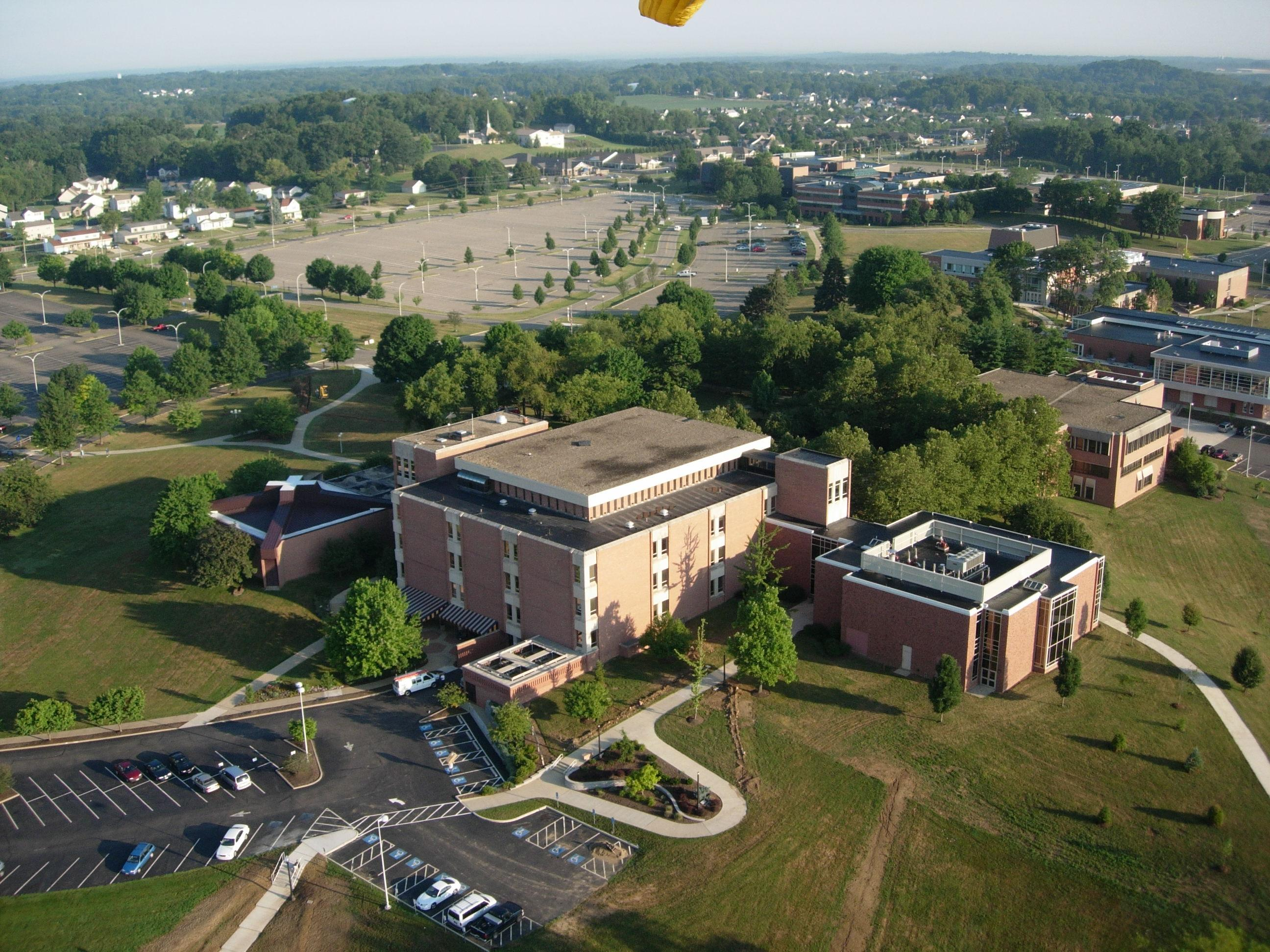 Kent State Stark Main Hall